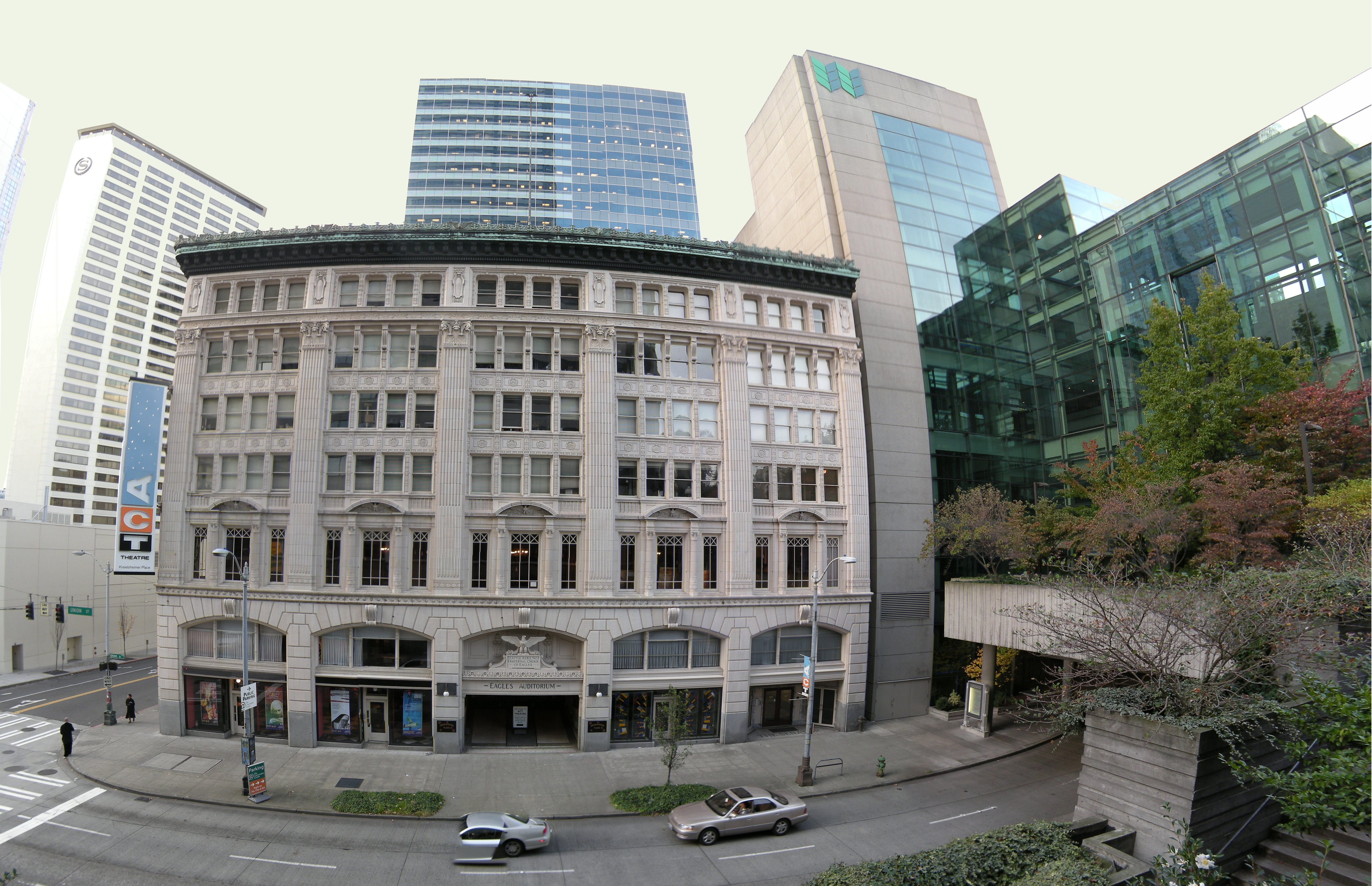 Panoramic view of Eagles Auditorium Building, Seattle, Washington, and (at right) part of the Washington State Convention Center. Photographed from an arcaded walk of 2 Union Place. Eagles Auditorium Building, now Kreielsheimer Place, is home to ACT (A Contemporary Theater), with two stages and a cabaret (also 44 apartments). Also known as Eagles Temple and as the Senator Hotel, the elaborately terracotta-covered building (designed by the Henry Bittman firm) is on the National Register of Historic Places, ID #83003338. The building was the Aerie No. 1 of the Fraternal Order of Eagles (which was founded in Seattle); it was for many years a major concert venue; and it was where Martin Luther King, Jr. spoke November 10, 1961 on his only visit to Seattle. This image was created with Hugin.